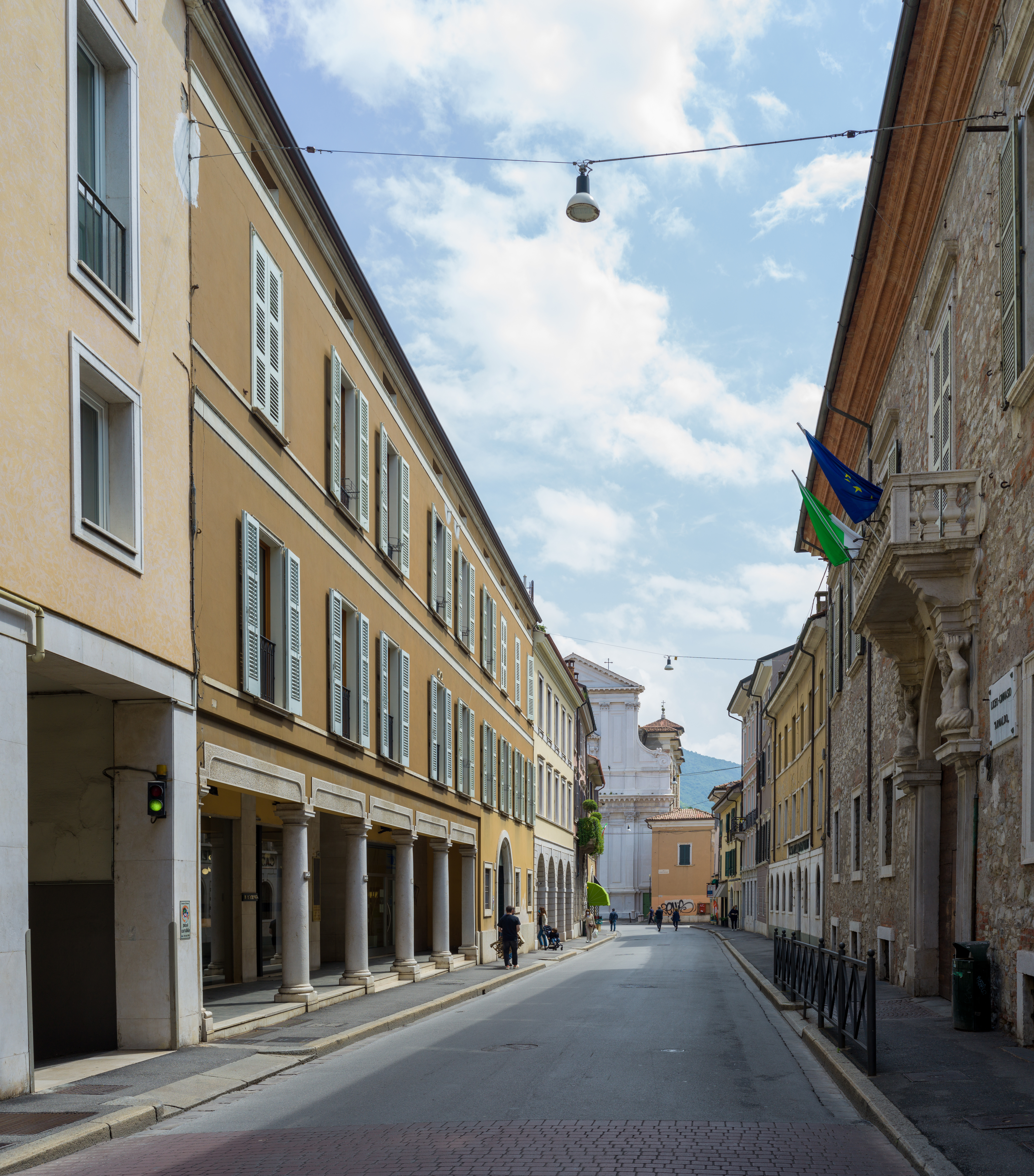 Corso Magenta street in Brescia.